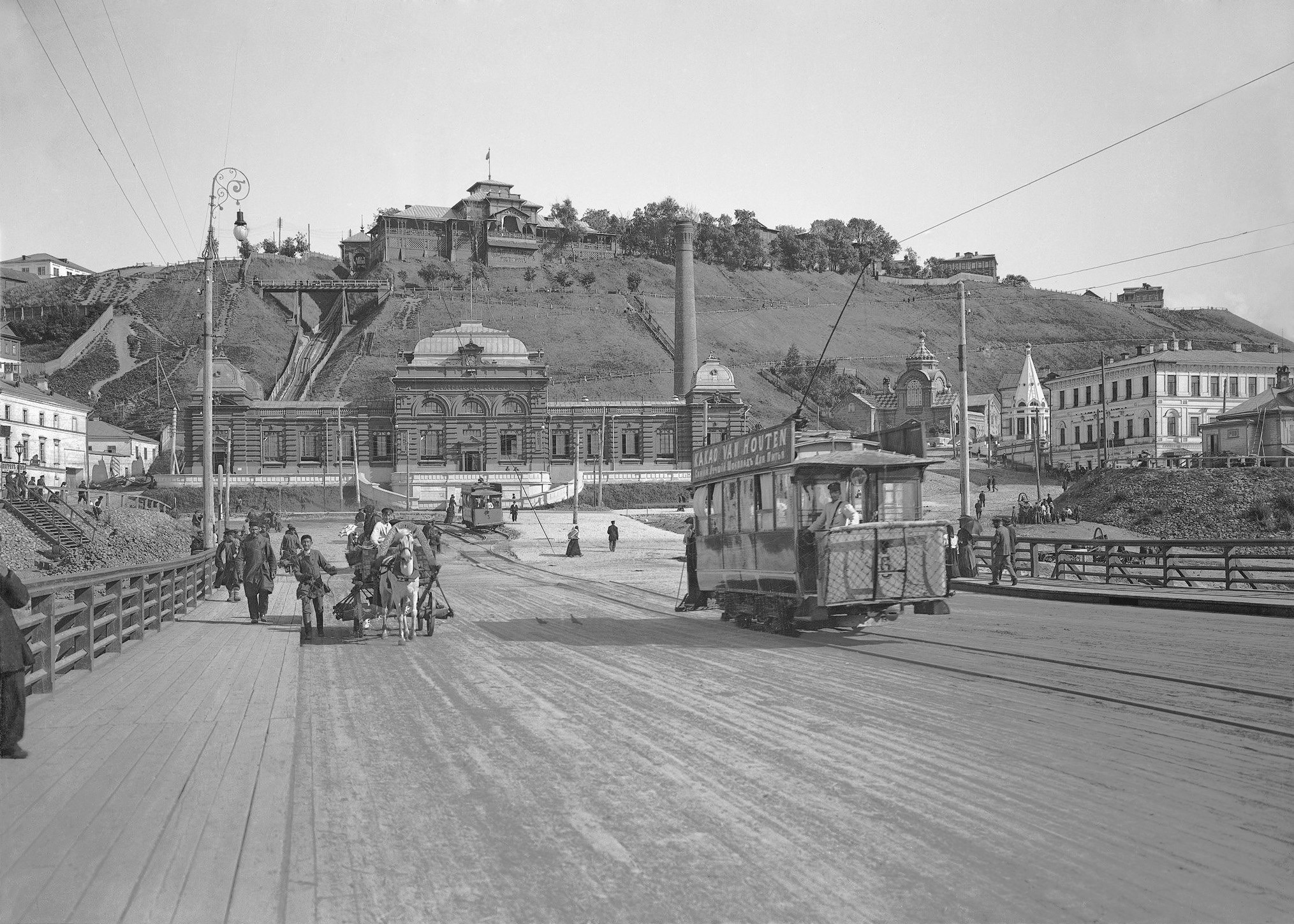 Tram on the bridge of boats, electric substation and the Pokhvalinsky funicular (elevator)